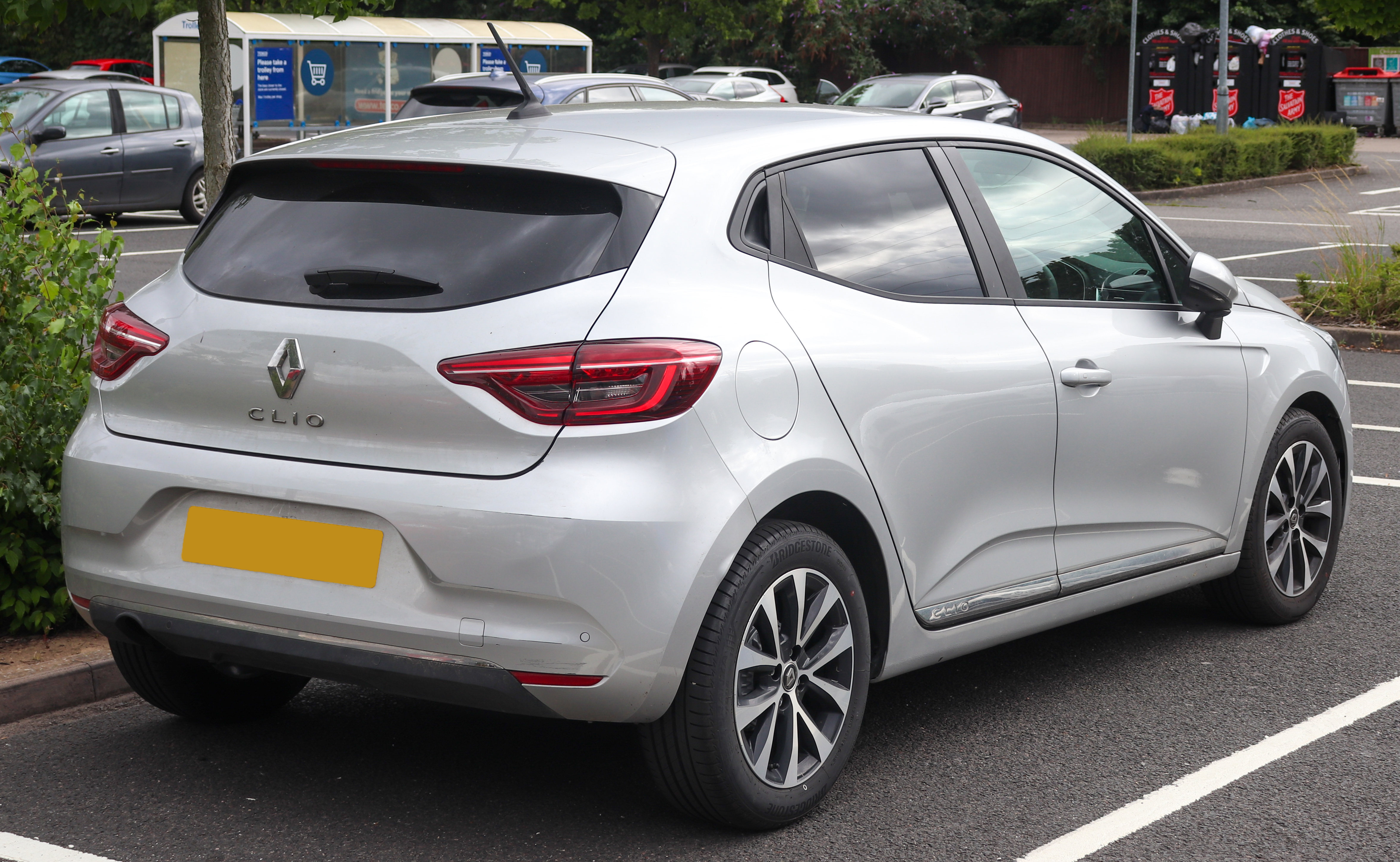 2019 Renault Clio Iconic TCE 1.0 Rear Taken in Warwick